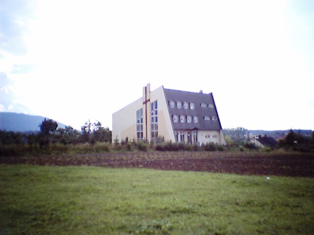 Lutheran Church in Třinec-Nebory (Frýdek-Místek District, Czech republic)